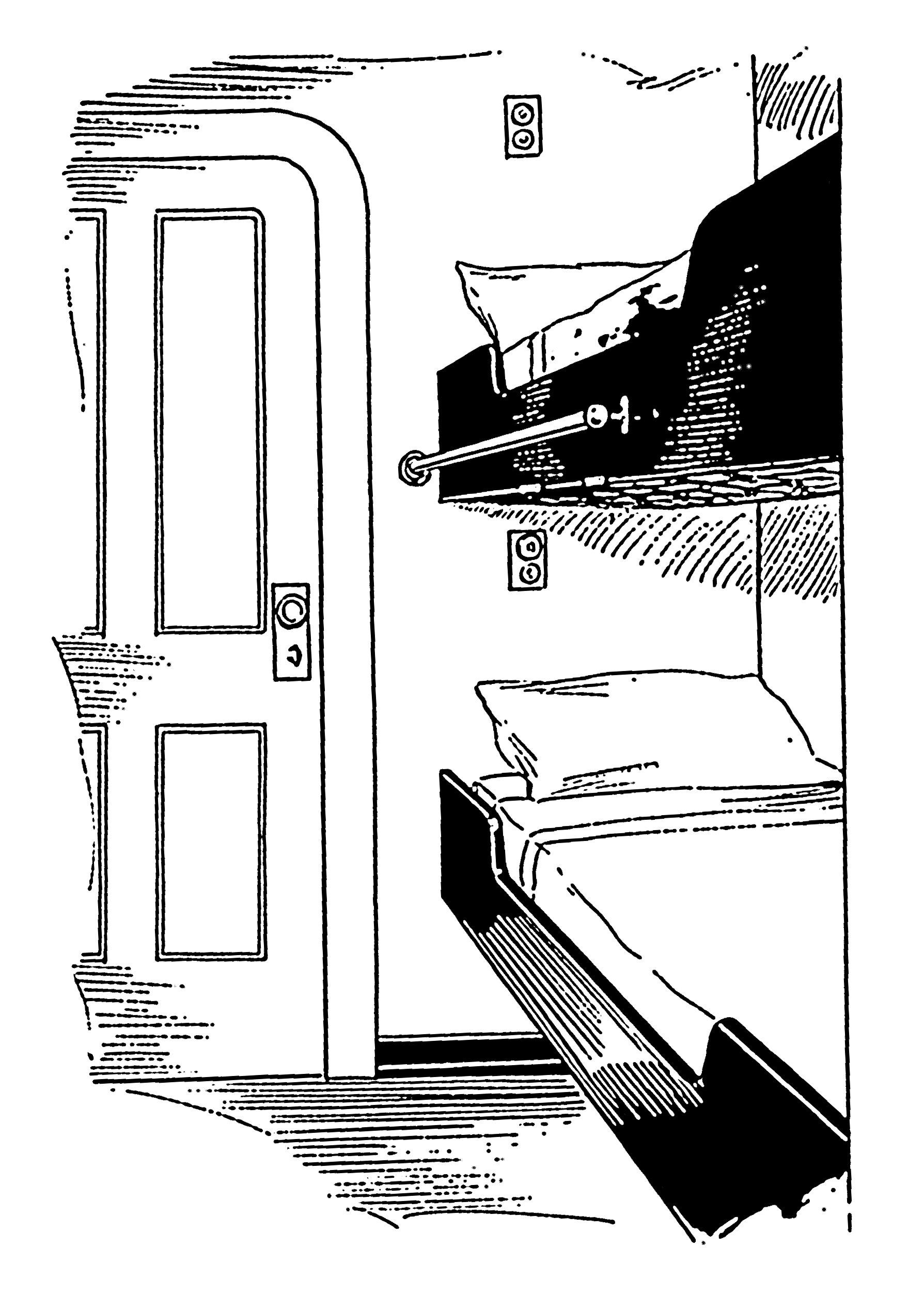 Line art drawing of a berth on board a ship.